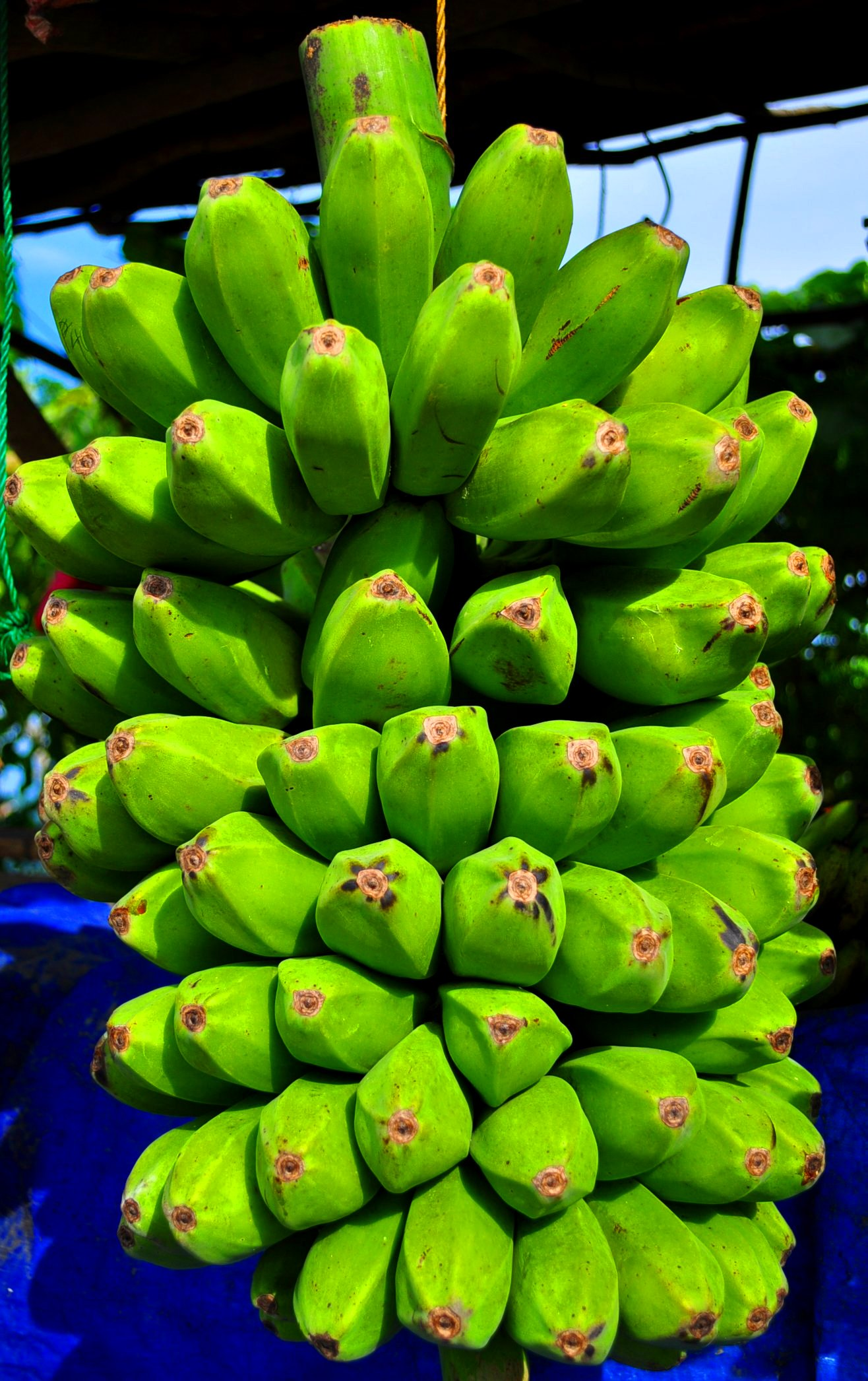 We call this kind of Banana as "Kardaba". We will cook this, but can be eaten directly when ripe.